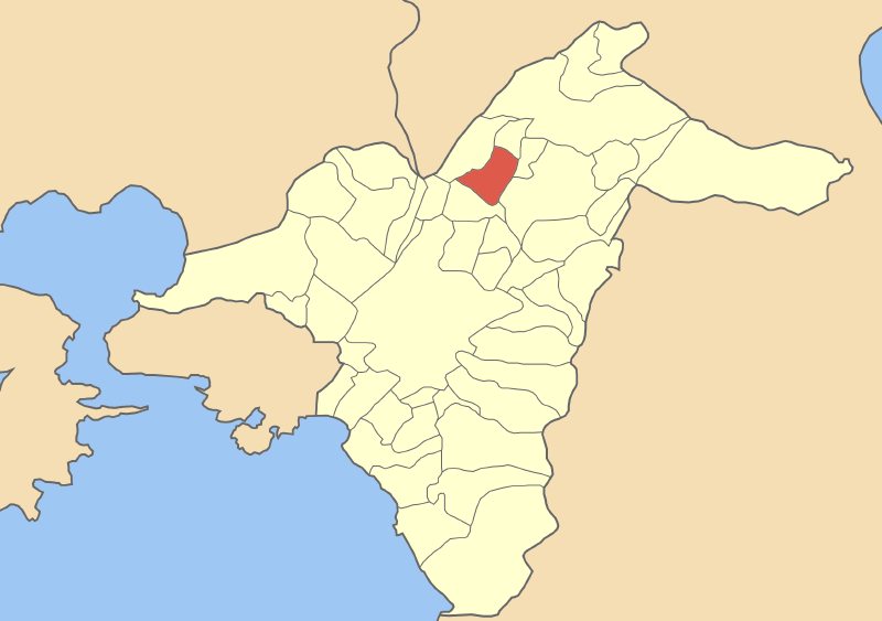 Locator map of Iraklio municipality (Δήμος Ηρακλείου) in Athina Nomarchia (Νομαρχία Αθηνών) in Greece.